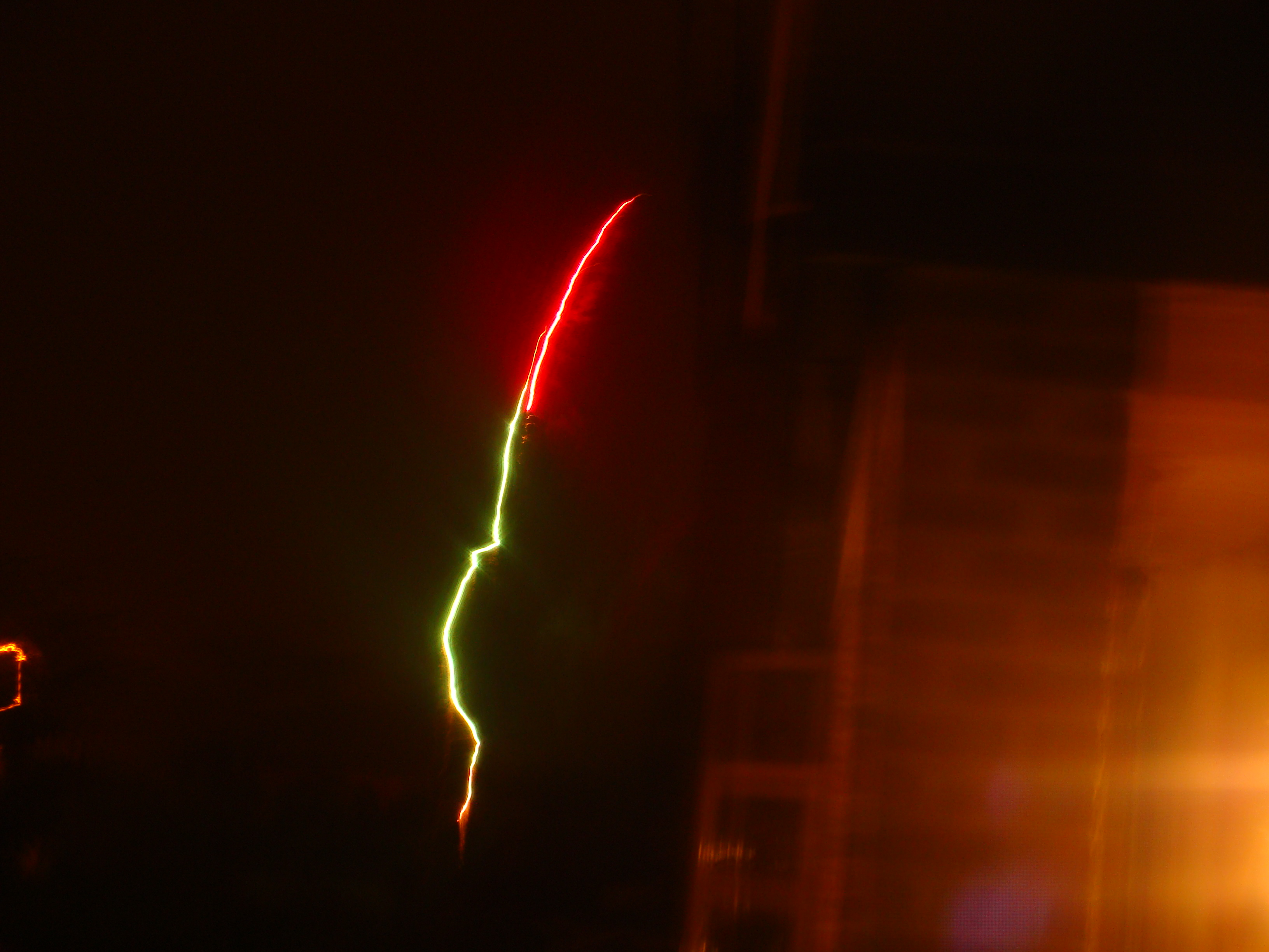 Fireworks as seen on a night during Guy Fawkes Day, over Southgate, London.